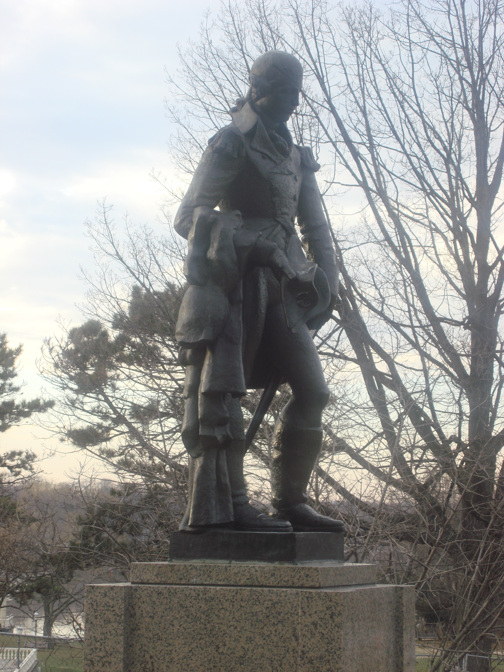 This is a photograph taken in December 2008 of the statue of American Revolutionary War Brigadier General Richard Montgomery, near the Philadelphia Museum of Art.